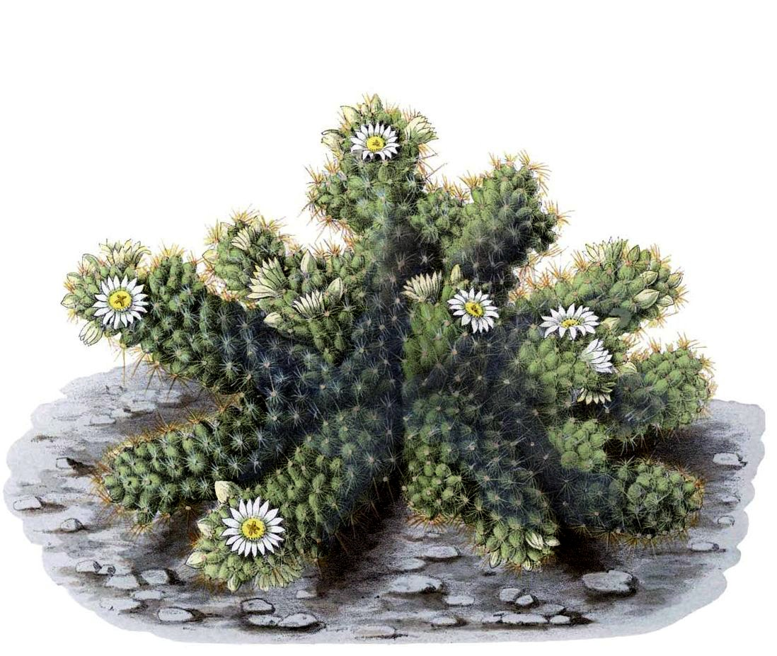 Mammillaria elongata